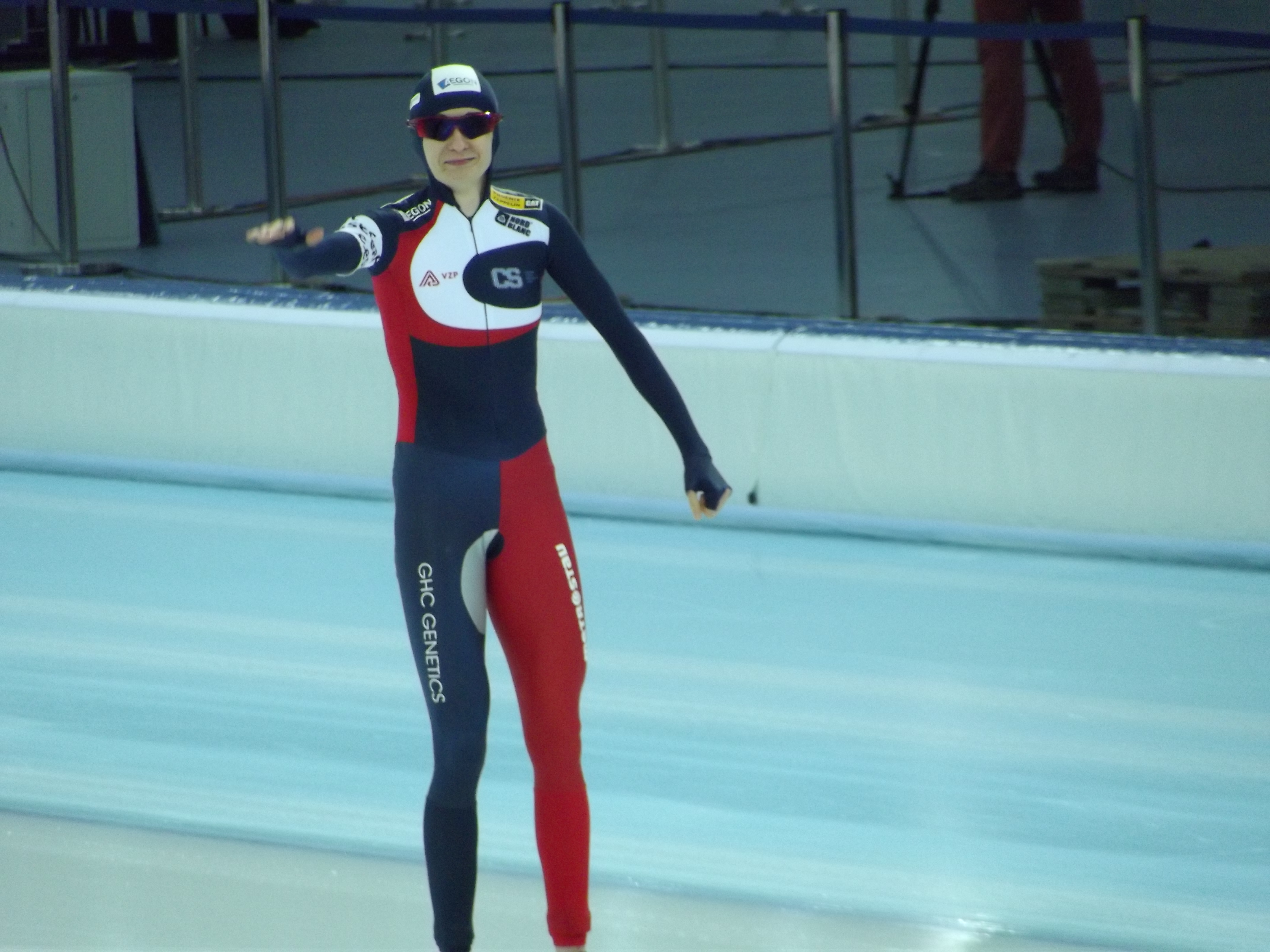 2013 World Single Distance Speed Skating Championships